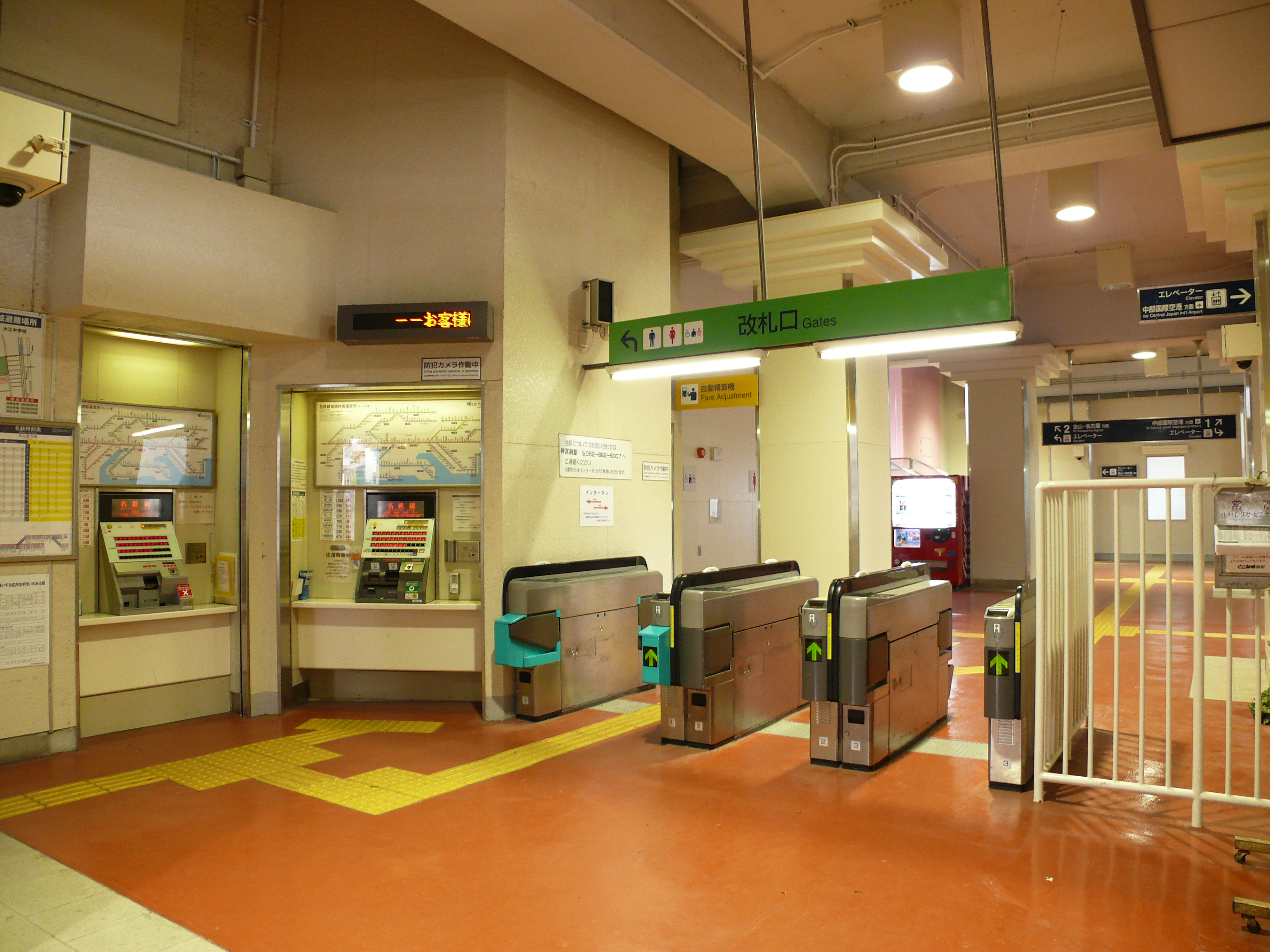 Meitetsu Dotoku Station.